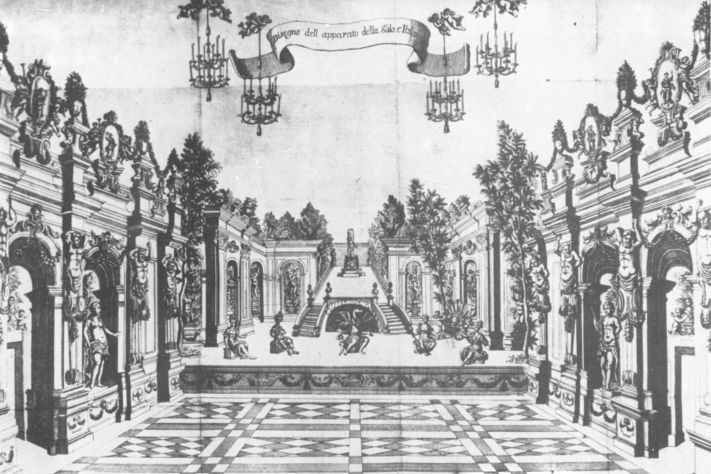 Nicola Porpora - Angelica - Representation of 1722 Naples